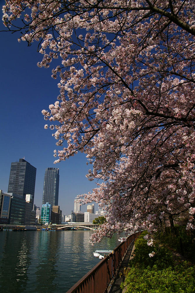 Minami-Temma Park and Ohkawa (Kyu-Yodo river), Osaka City, Japan